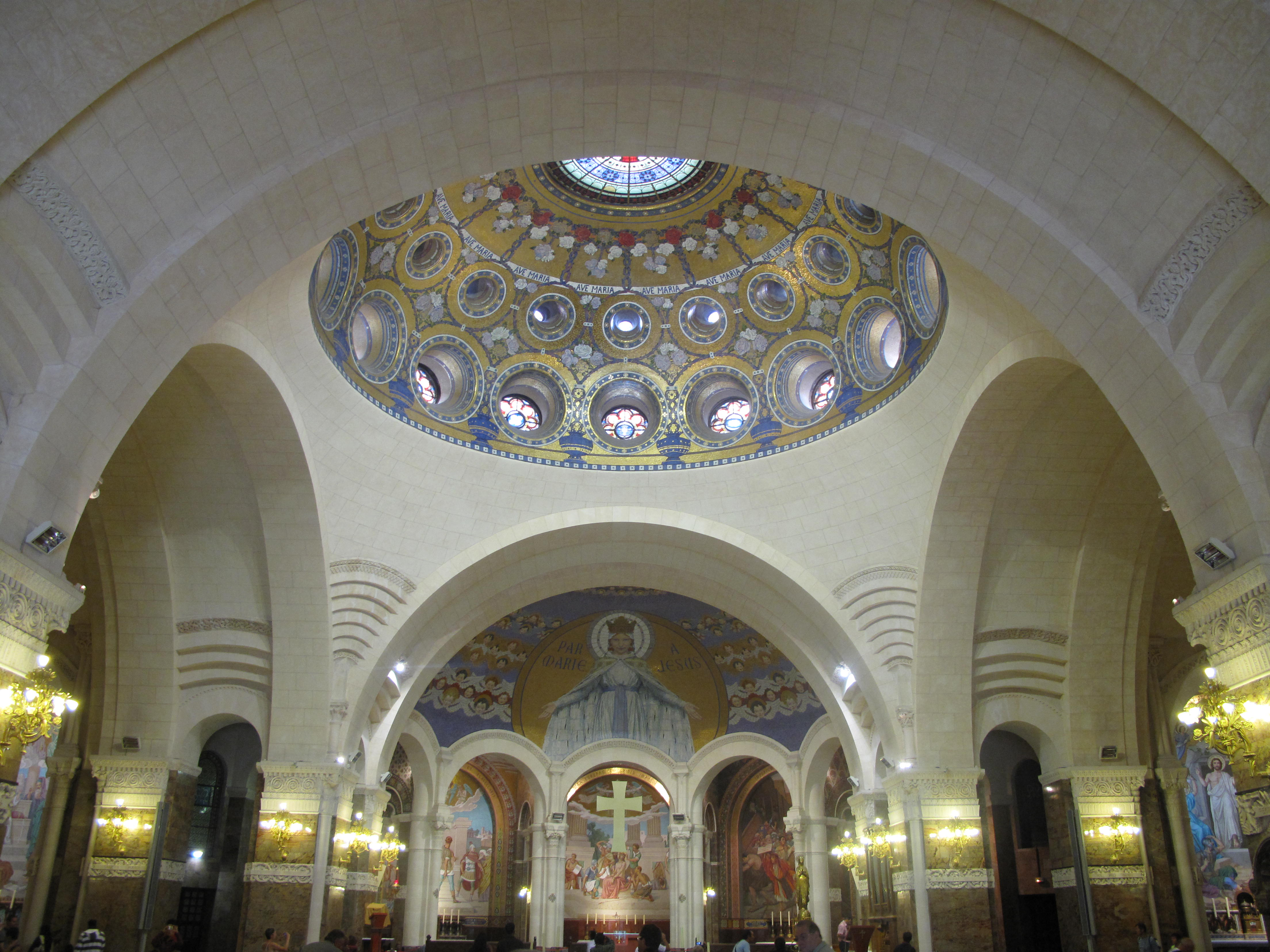 The choir of the Rosary Basilica, lower level, Lourdes, France